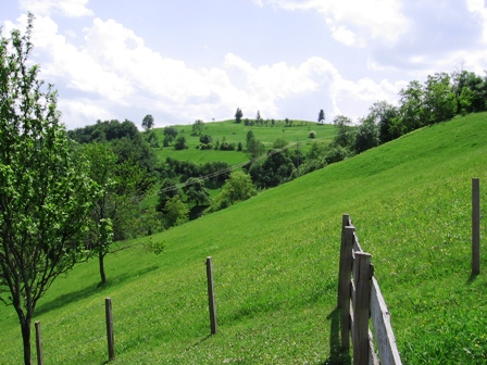 Landscapte near Ljubiš, Čajetina, Serbia